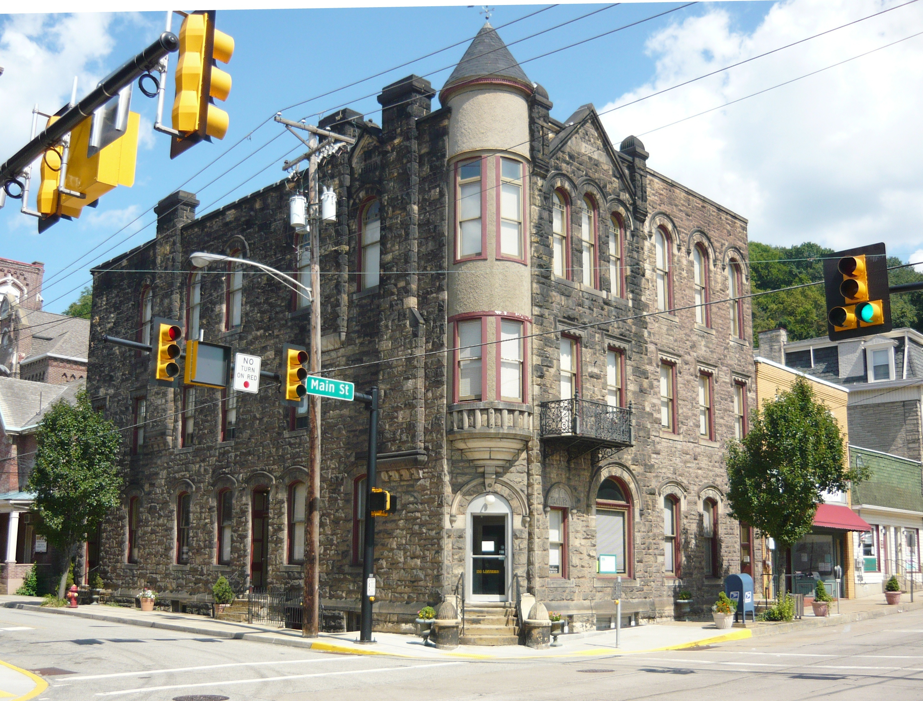 Dick Building (Cornerstone Building), 201-203 East Main Street (at North Second Avenue), West Newton, Westmoreland County, Pennsylvania.